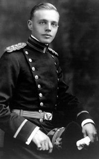 Portrait of Harold Melville Clark, the official namesake of Clark Air Base, Philippines